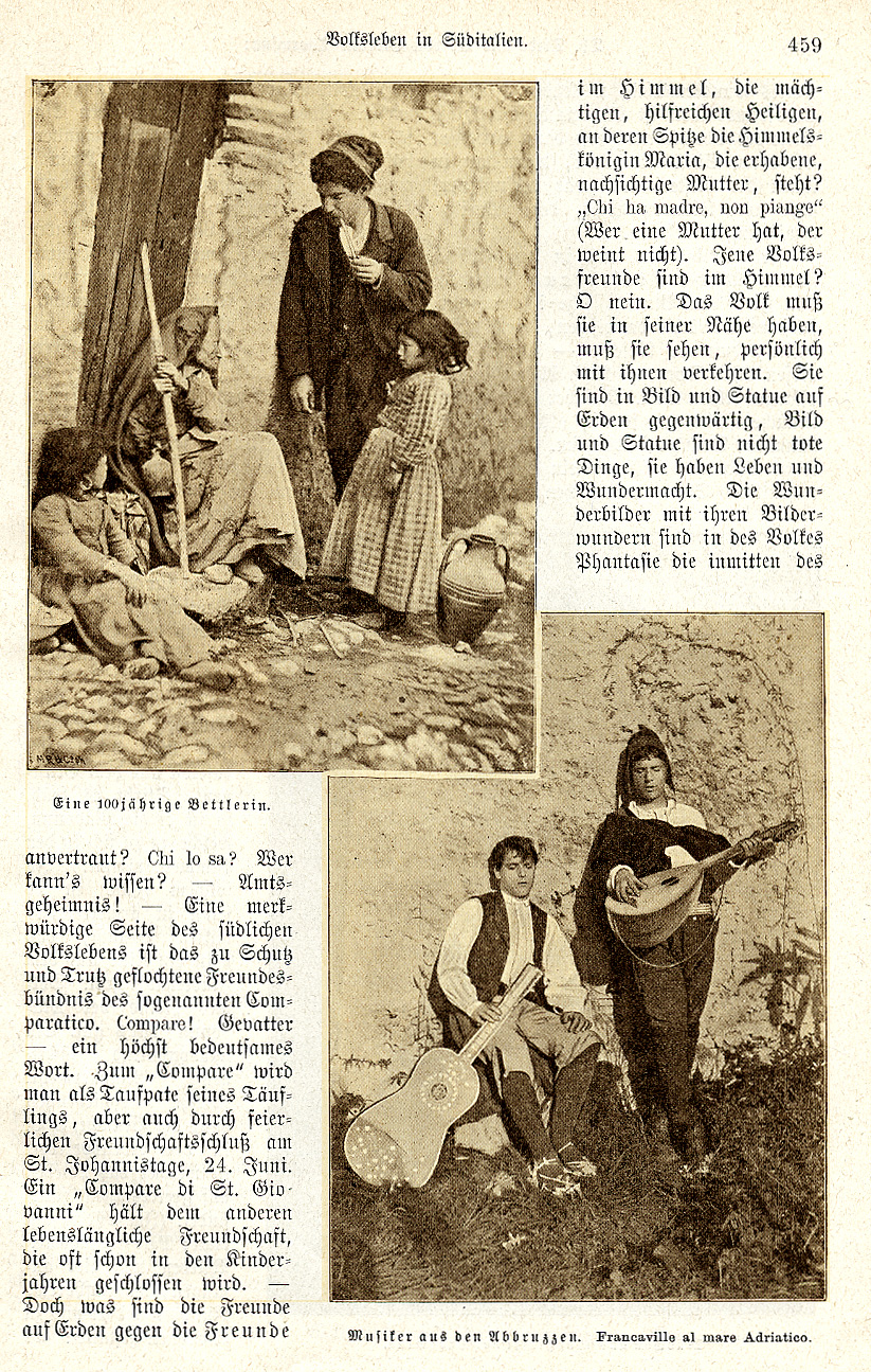 Page of the paper, written by Theodor Trede (1833-19..), Volksleben in Süditalien, scenned from magazine "Velhagen & Klasings Monatshefte", XII 1897-98, p. 459.